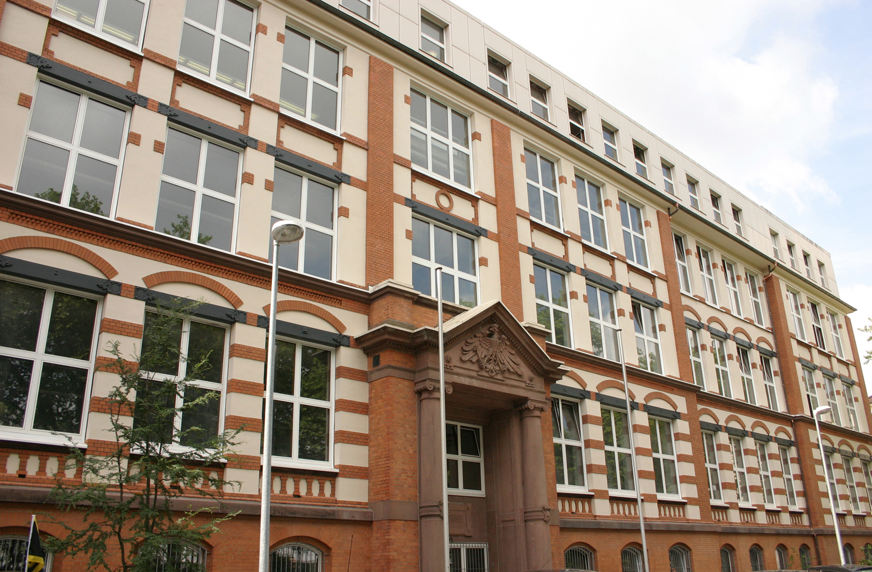 Fachhochschule Dortmund, University of Applied Sciences and Arts